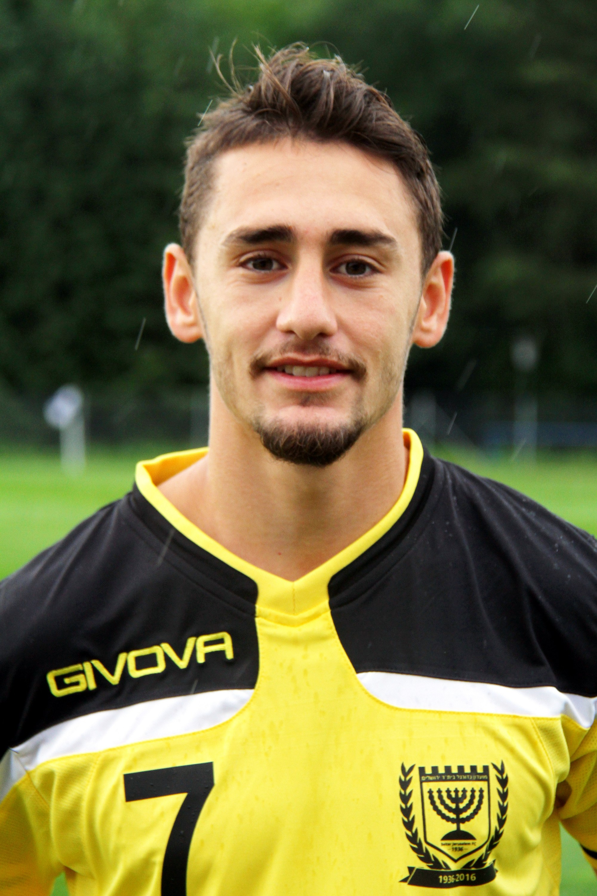 Friendly match between Beitar Jerusalem F.C. (yellow shirts) and MTK Budapest FC (blue shirts) at 2016-06-18 in Bad Erlach (Austria. – The photo shows Omer Atzili, Beitar Jerusalem F.C.